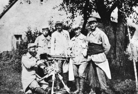 Members of the Swedish Volunteer Corps within the French Foreign Legion. Nils Persson (with the machine gun), Edgard Meissner, Elow Nilson, Olof Bremer, and Ivan Lönnberg.